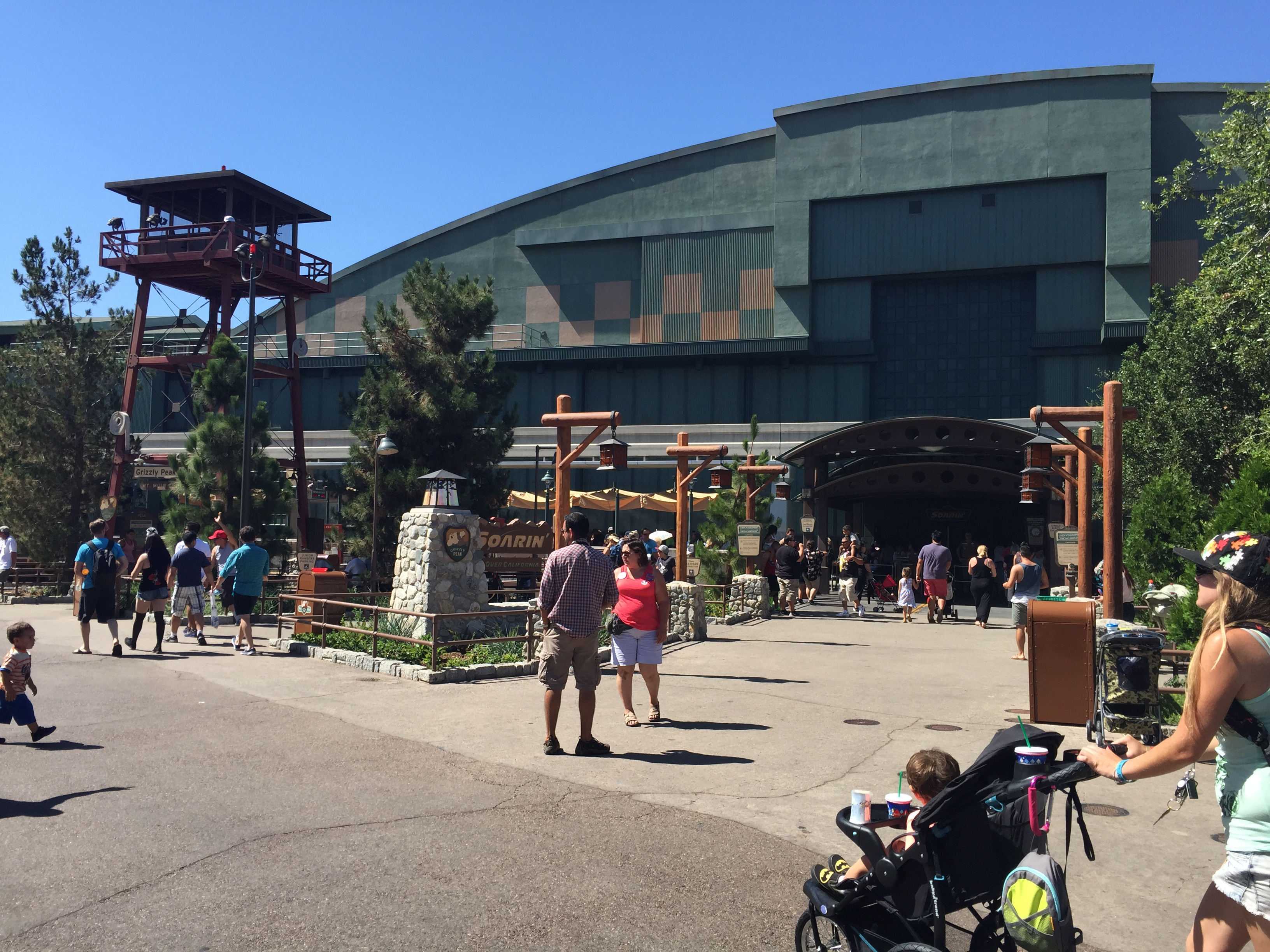 After a brief update to the attraction in 2015, a new facade paint job was seen. Also included in the update was a new themed sign matching the Grizzly Peak area for the attraction as well as a new Fire Lookout tour.